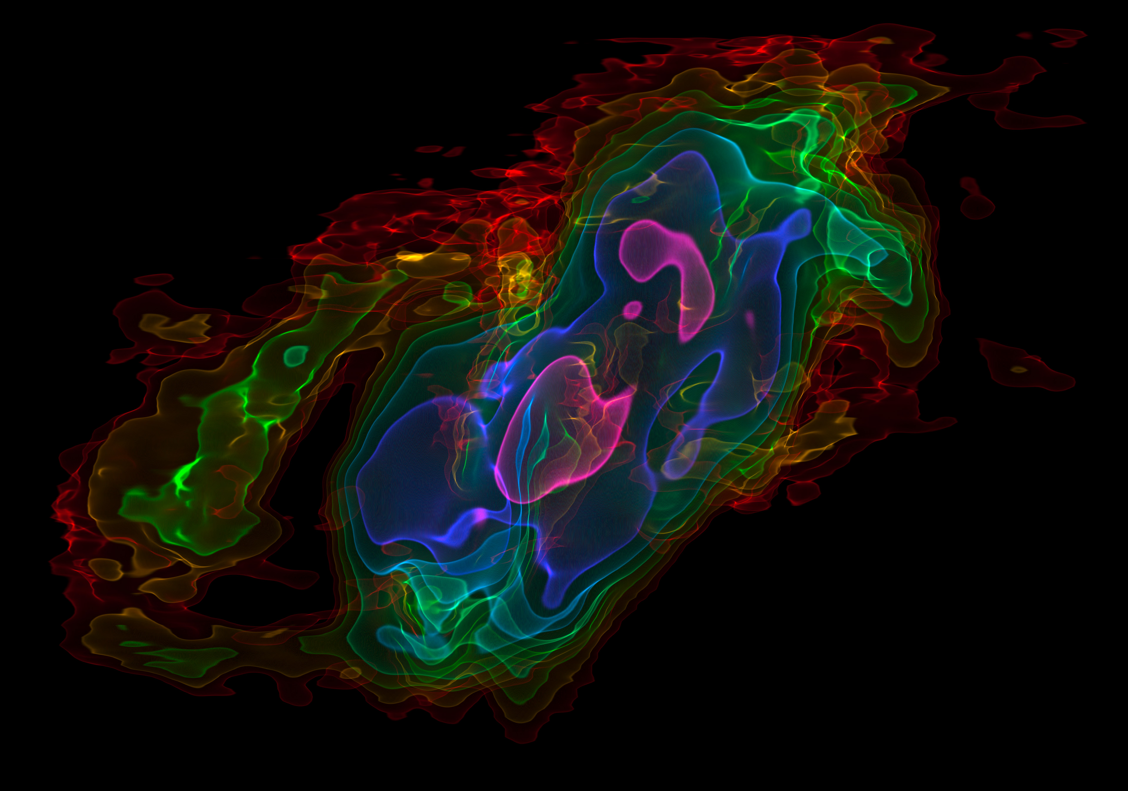 This picture shows a view of a three-dimensional visualisation of ALMA observations of cold carbon monoxide gas in the nearby starburst galaxy NGC 253 (The Sculptor Galaxy). The vertical axis shows velocity and the horizontal axis the position across the central part of the galaxy. The colours represent the intensity of the emission detected by ALMA, with pink being the strongest and red the weakest. These data have been used to show that huge amounts of cool gas are being ejected from the central parts of this galaxy. This will make it more difficult for the next generation of stars to form.